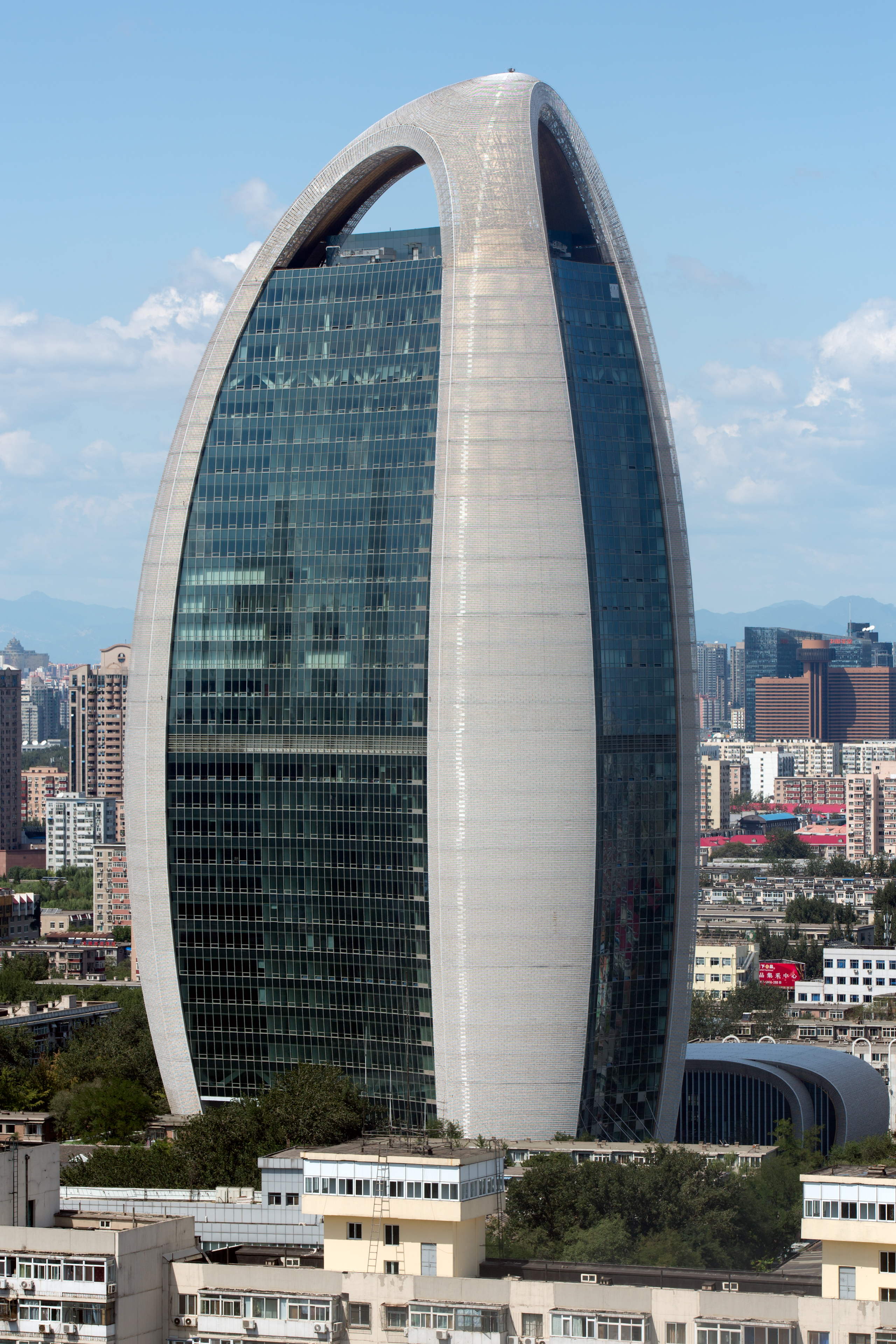 People's Daily Headquarters